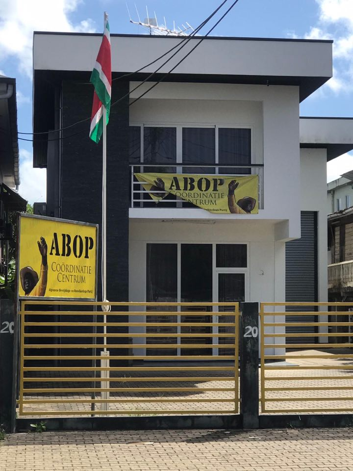 Party office ABOP Suriname Paramaribo, Verlengde Keizerstraat 20